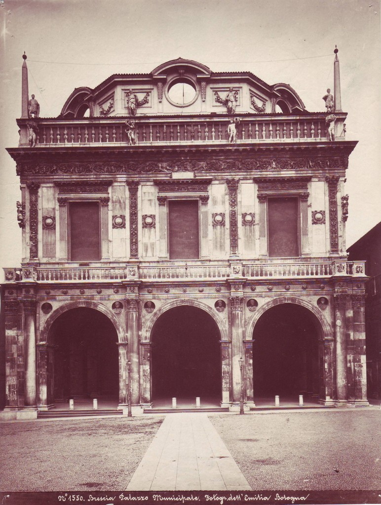 Fotografia dell'Emilia (Pietro Poppi, 1833-1914) - "Brescia - Town Hall"). Catalogue number: 1550.